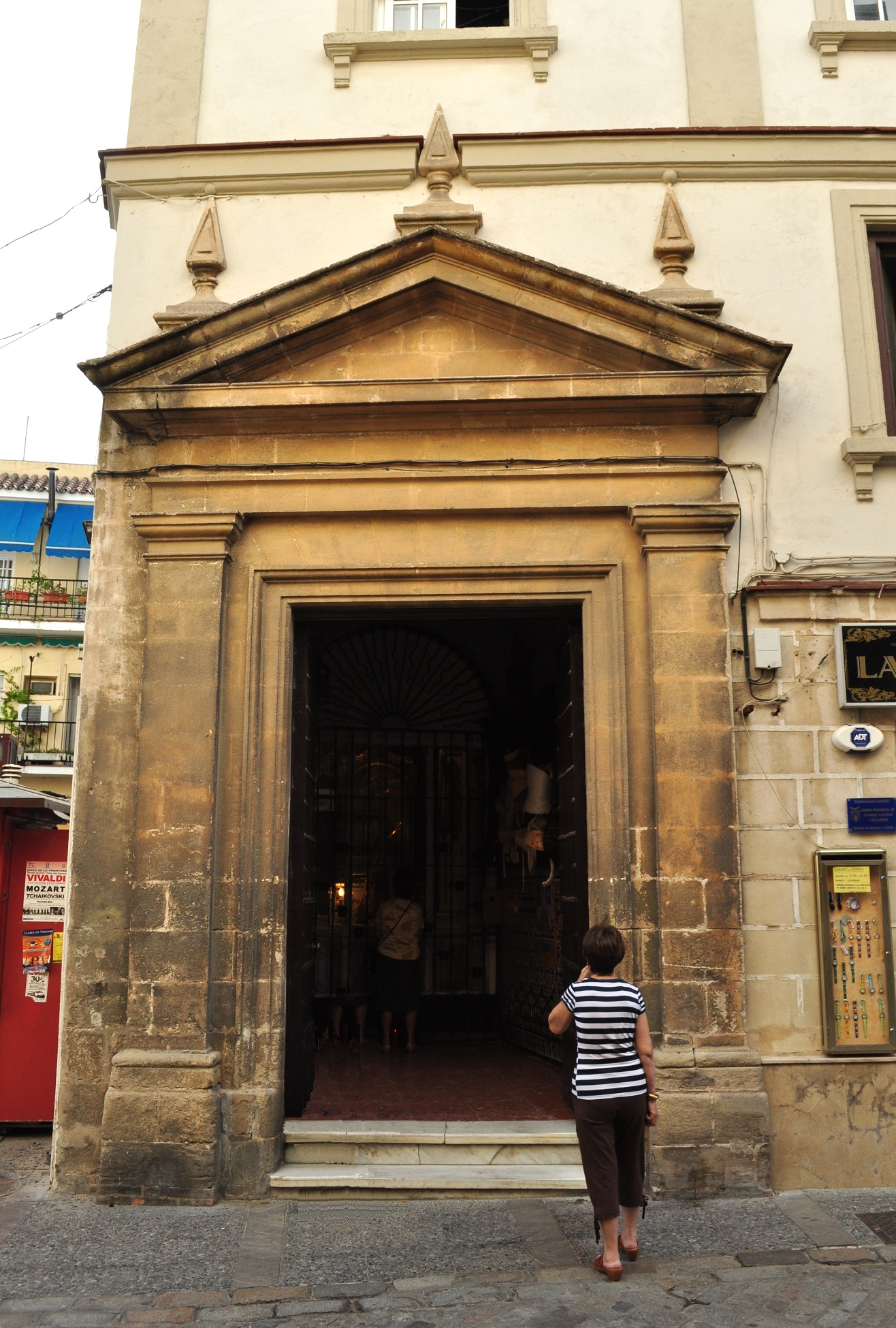 Chapel Lord of Royal Gate, Jerez